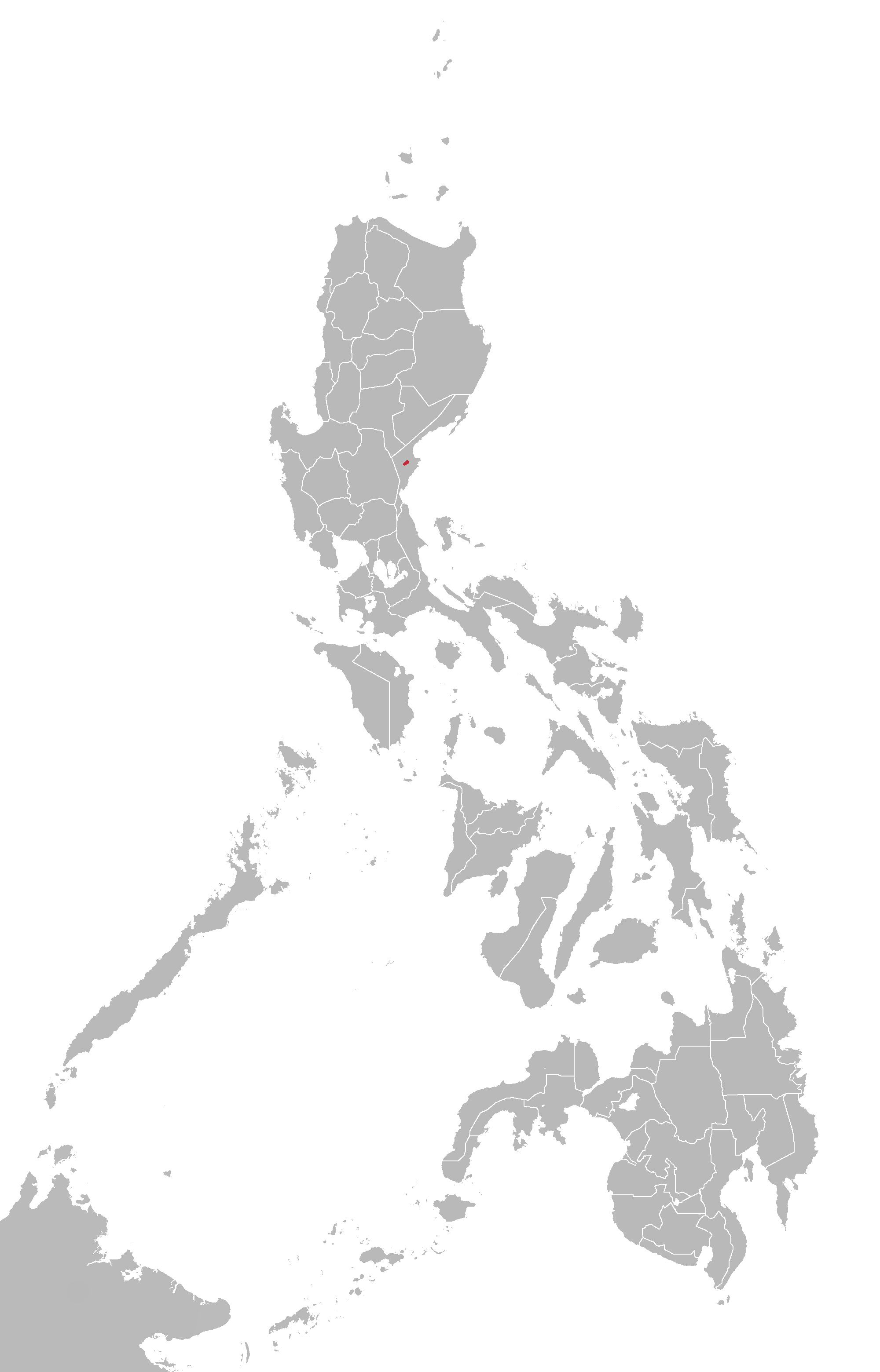 Northern Alta language map according to Ethnologue maps